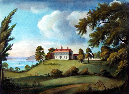 Aquatint by Francis Jukes (1745-1812) of Mount Vernon, near Alexandria, Virginia.